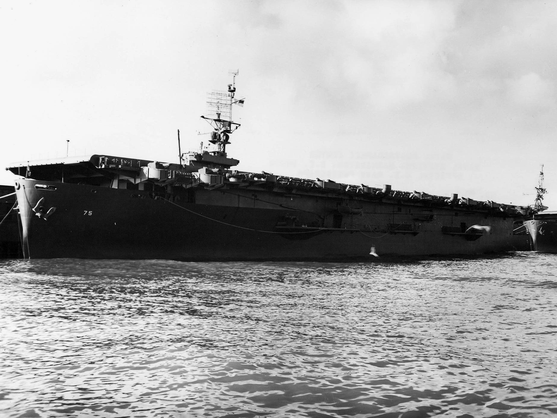 The U.S. Navy escort carrier USS Hoggatt Bay (CVE-75) around the time of her commissioning, which took place at Astoria, Oregon (USA), on 11 January 1944, with Captain W.V. Saunders taking command.